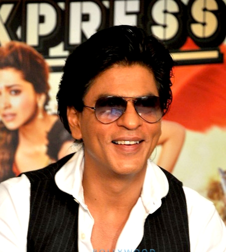 Shah Rukh Khan at the Facebook Chat for the Promotion of Chennai Express